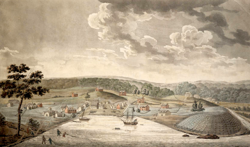 Baltimore in 1752, reconstruction by Edward Johnson Coale in 1817 of the 1752 etching by John Moale of Baltimore.